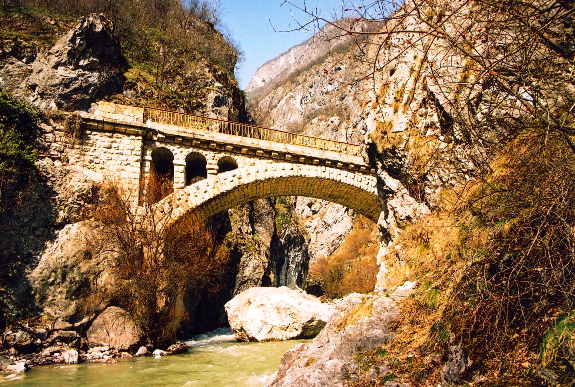 Bridge located at the fifth kilometer in Peja heading towards Rugova Canyon.